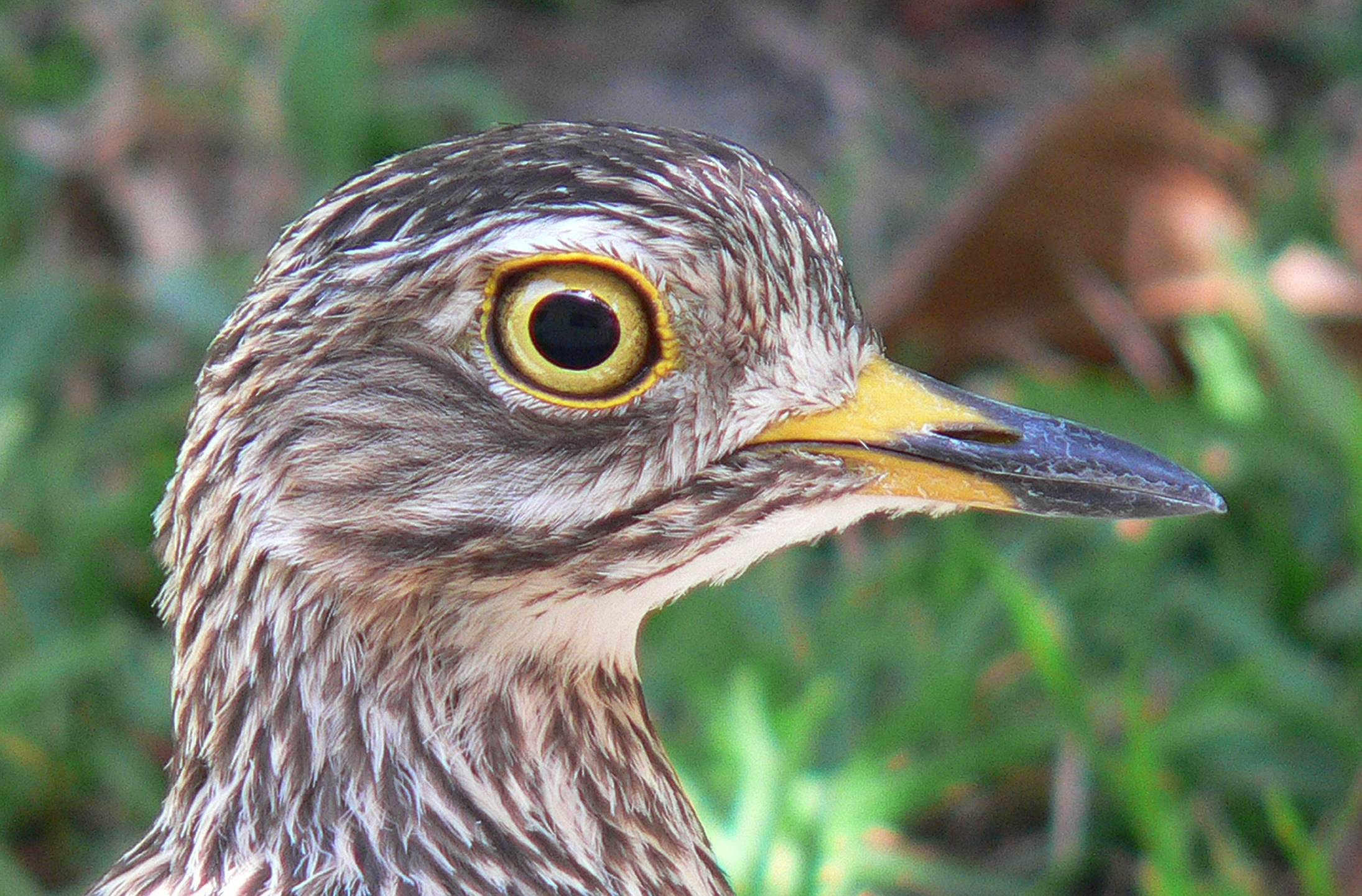 Head of a Dikkop (thick head) nesting at Constantia, South Africa